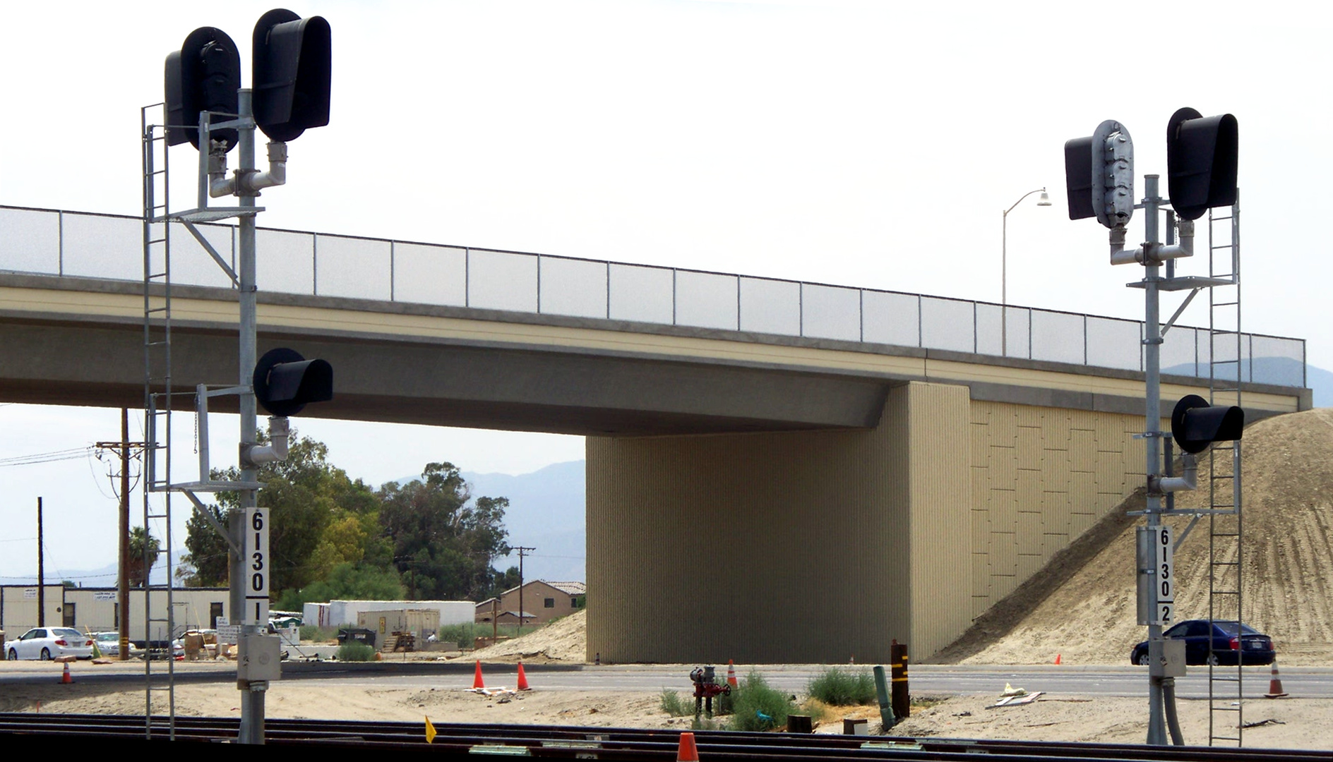 Newly installed vertical color light block signals along the Union Pacific Railroad Yuma Subdivision (originally the Southern Pacific Railroad "Sunset Route"), Coachella, California, USA